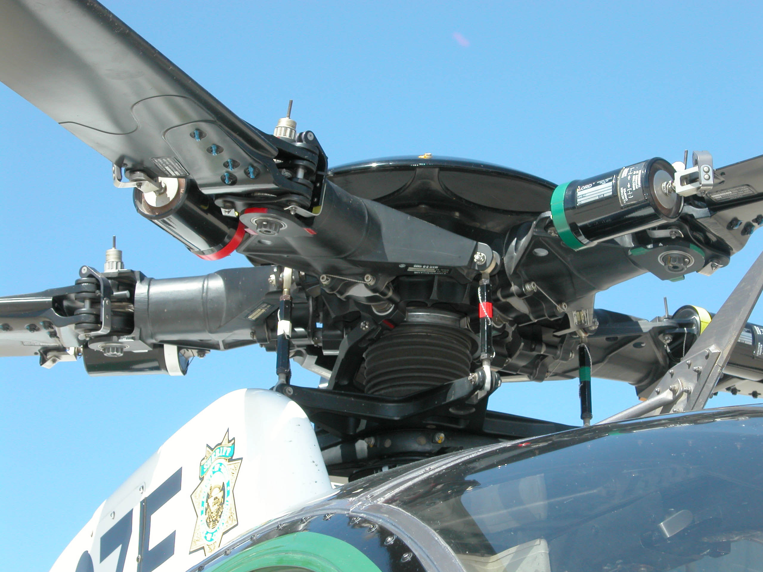 MD 500E rotorhead